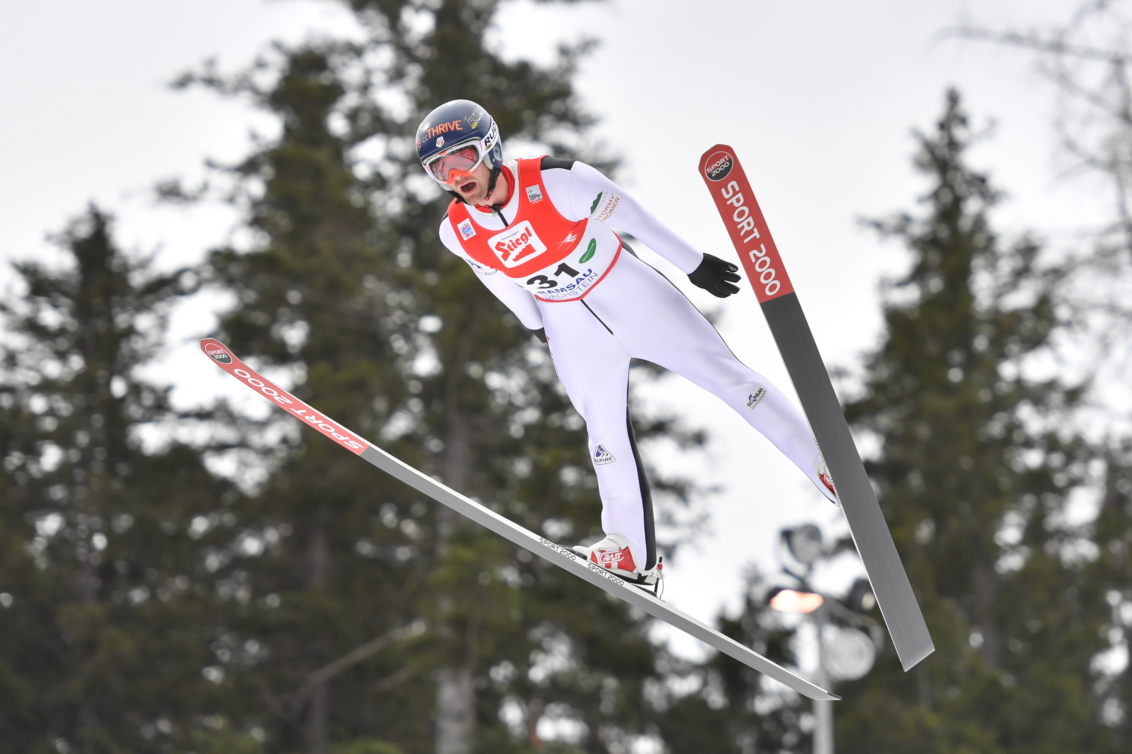 FIS World Cup Nordic Combined, Ramsau/Austria, 2016-12-16 to 2016-12-18.